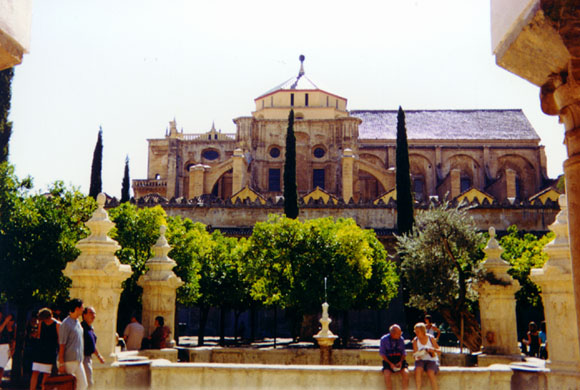 Interior courtyard of the Mezquita, Córdoba. Source Photo by Infrogmation, 4 October 1999. Transwiki details Previously uploaded at Image:Mesquite.jpg 17:06, 28 August 2004 by Infrogmation